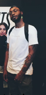 A still from a video edited and shot by Christopher O'Quinn on titled "JPEGMAFIA interview at NTS Radio with Natalie James." The video is licensed under creative commons.